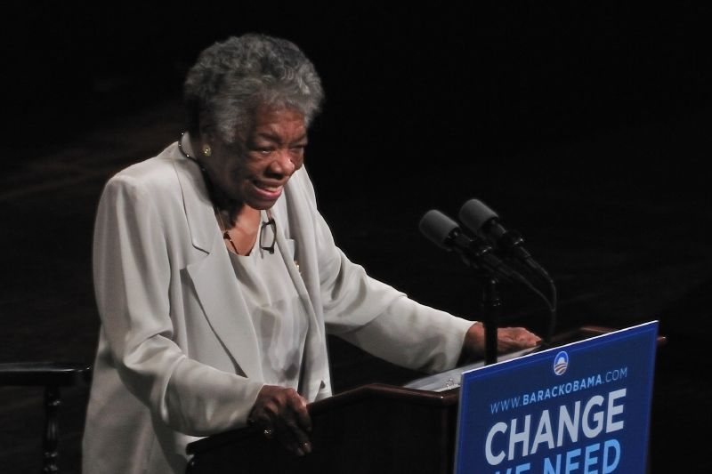 The Carolina Theater, Greensboro, North Carolina, September, 2008